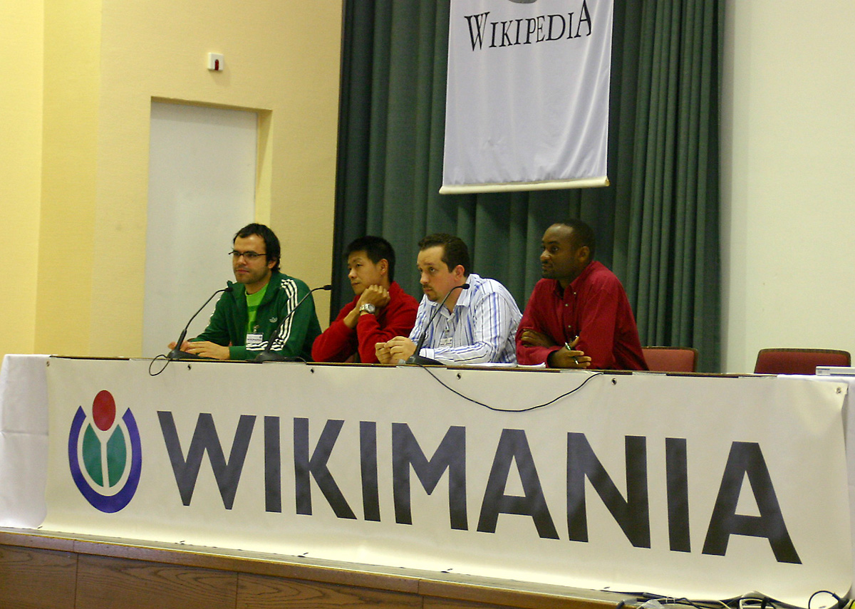 Wikimania Global Voices Panel, 2005-08-07 from left to right: Hossein Derakhshan, Ting Chen, Isam Bayazidi, Milton Ainehuranga author: Elke Wetzig (User:Elya)